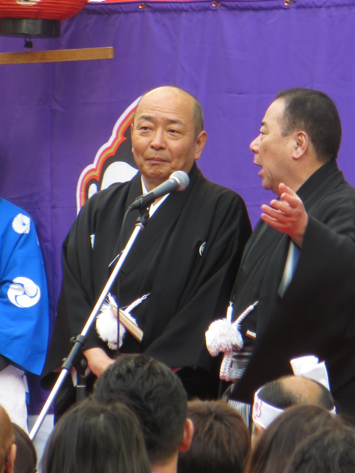 Hiroyuki Yamamoto (Television presenter from Japan)